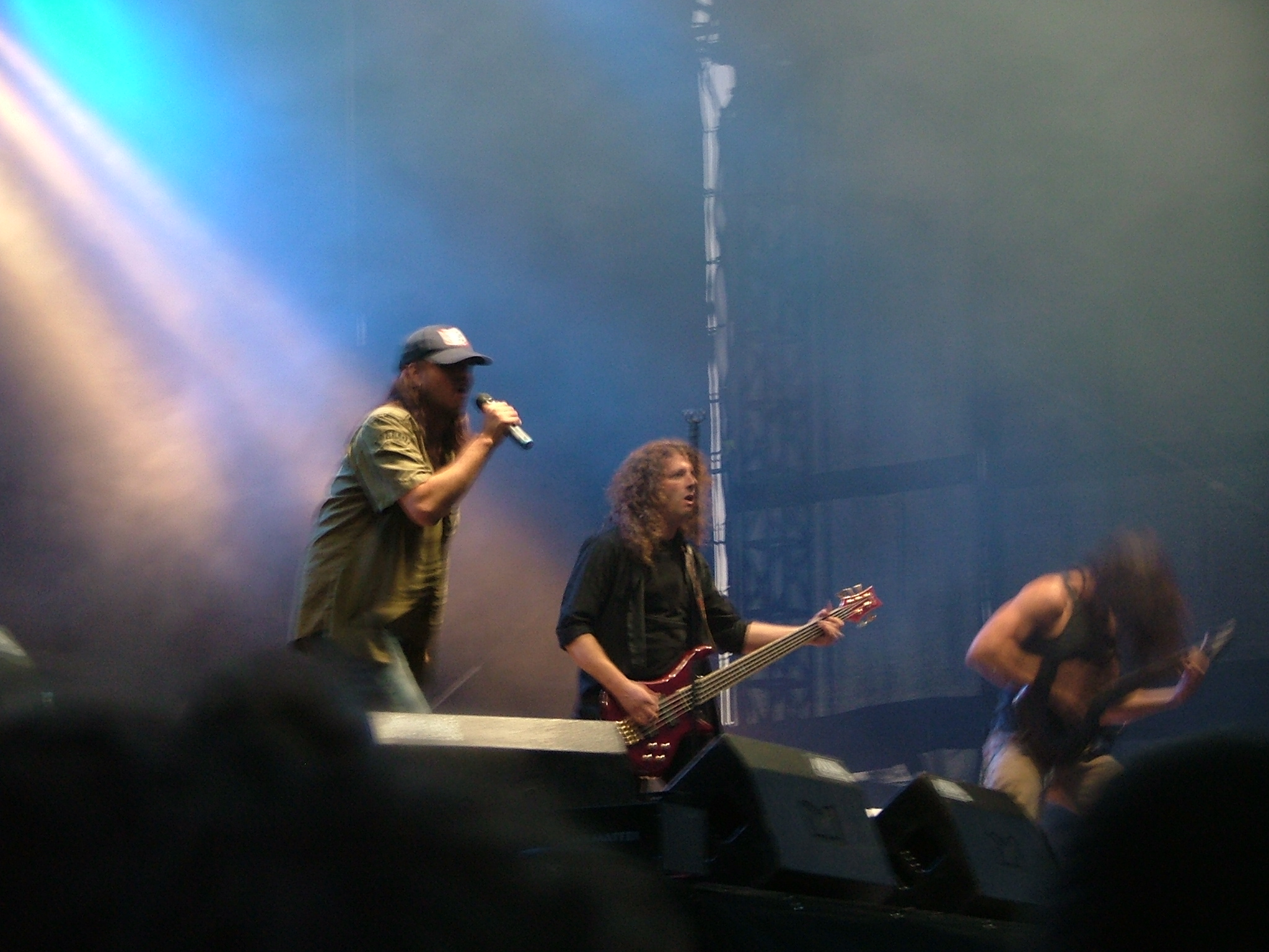 USAmerican progressive metal band Nevermore at the Summer Breeze in Dinkelsbühl